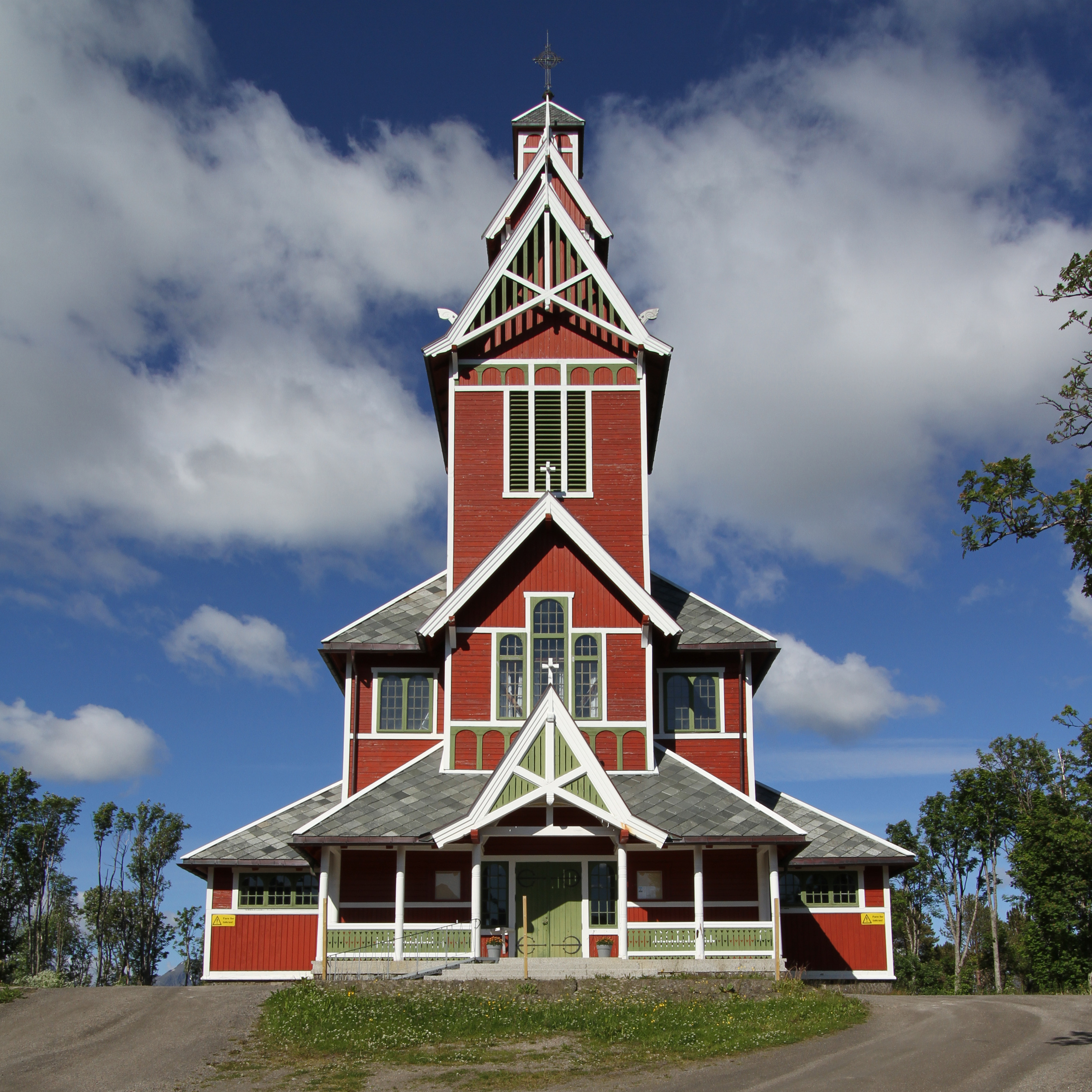 Gravdal church in Norway